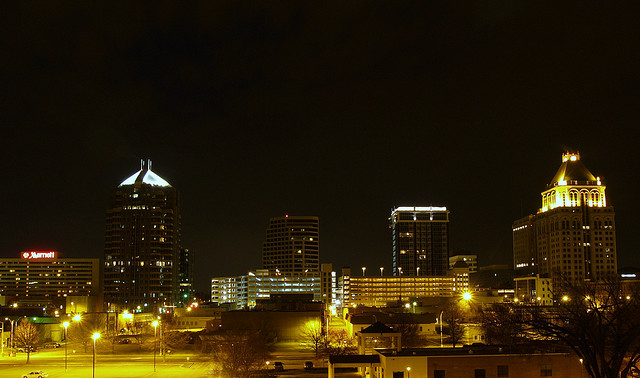 The skyline of Greensboro from new bridge bank park downtown.